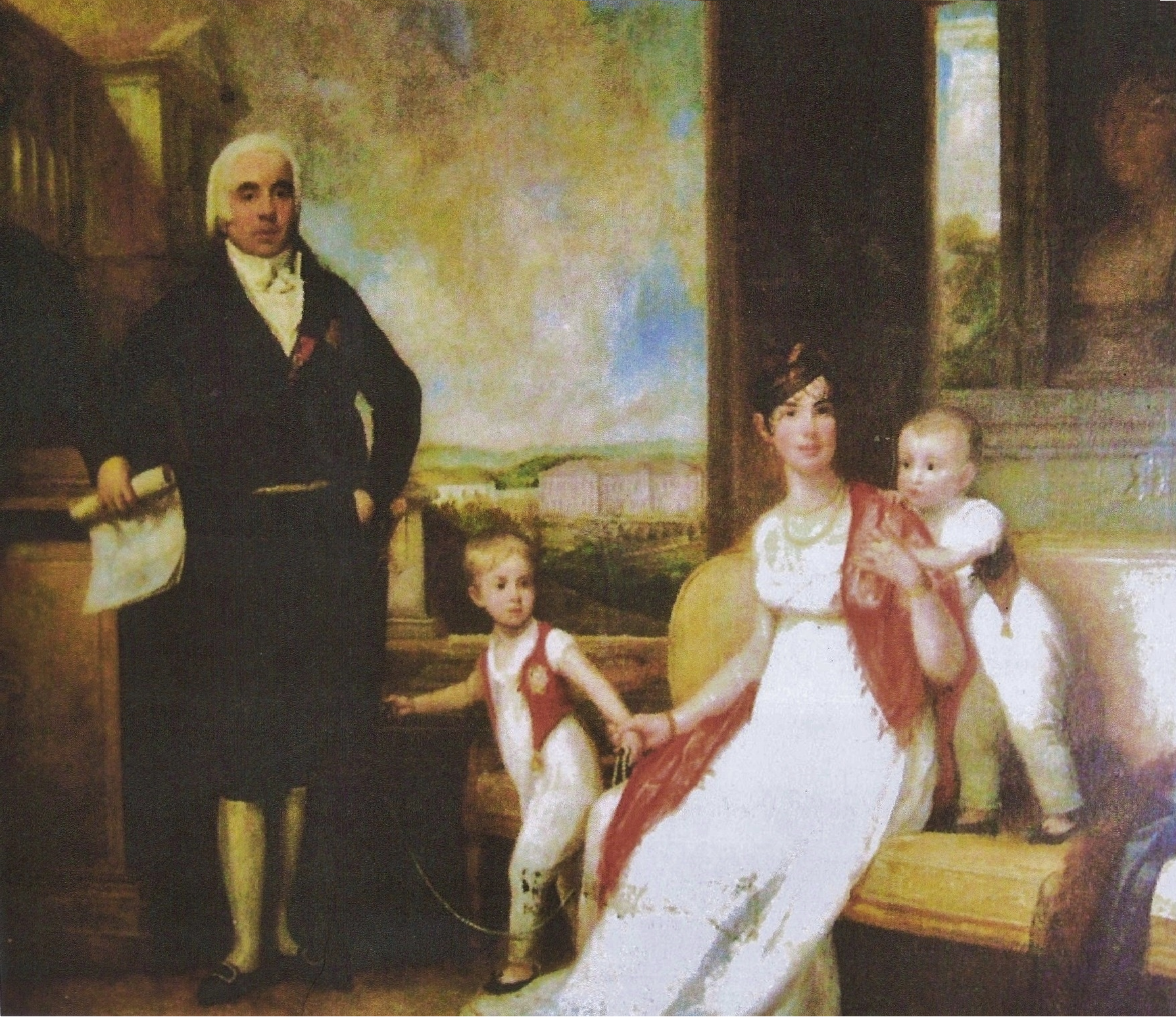 The Family of the 1st Baron of Quintela, by Domenico Pellegrini. Private collection.